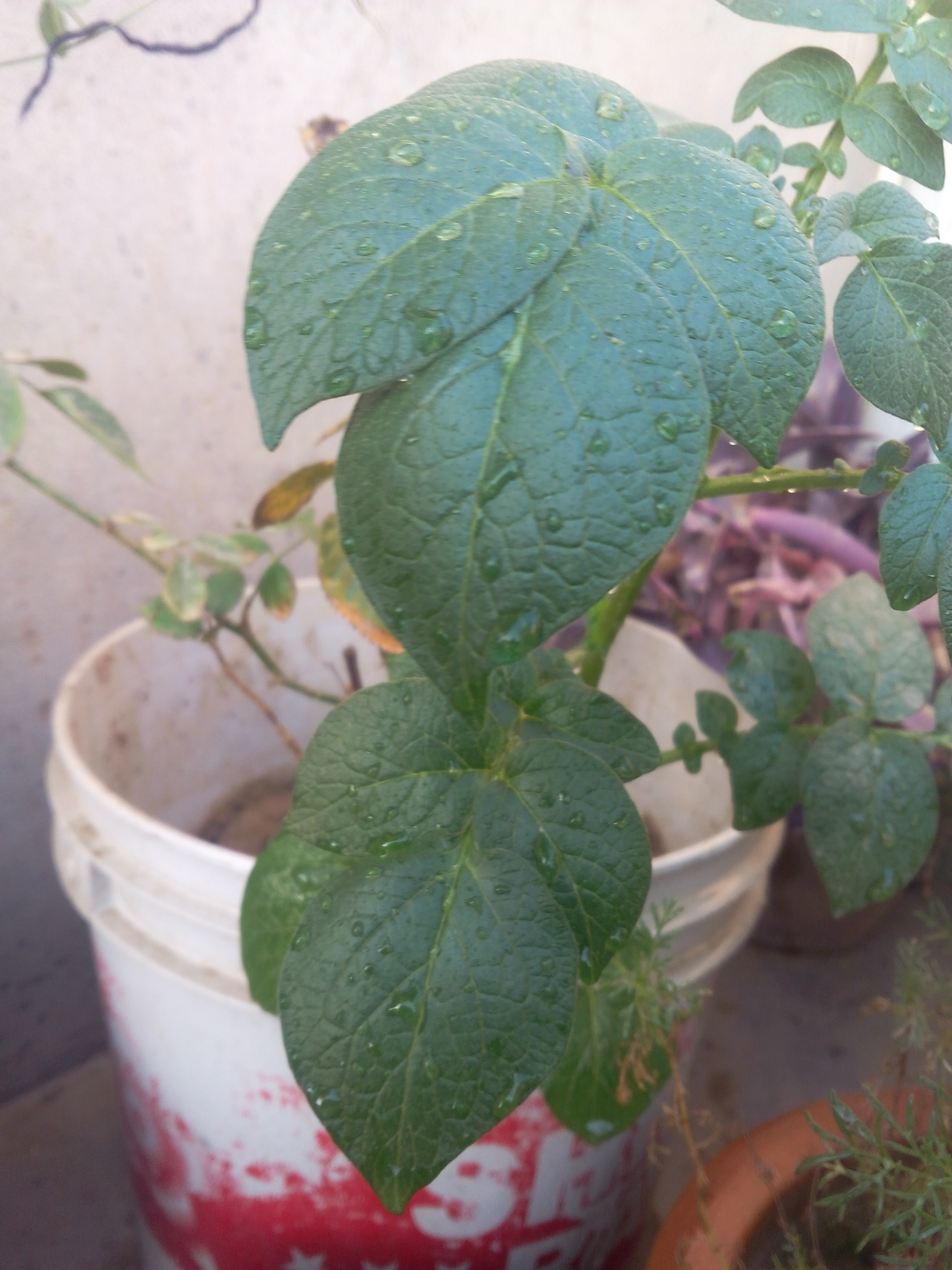 Photo of potato leaves. it is taken by me. Shemaroo (talk) 02:29, 5 December 2014 (UTC)